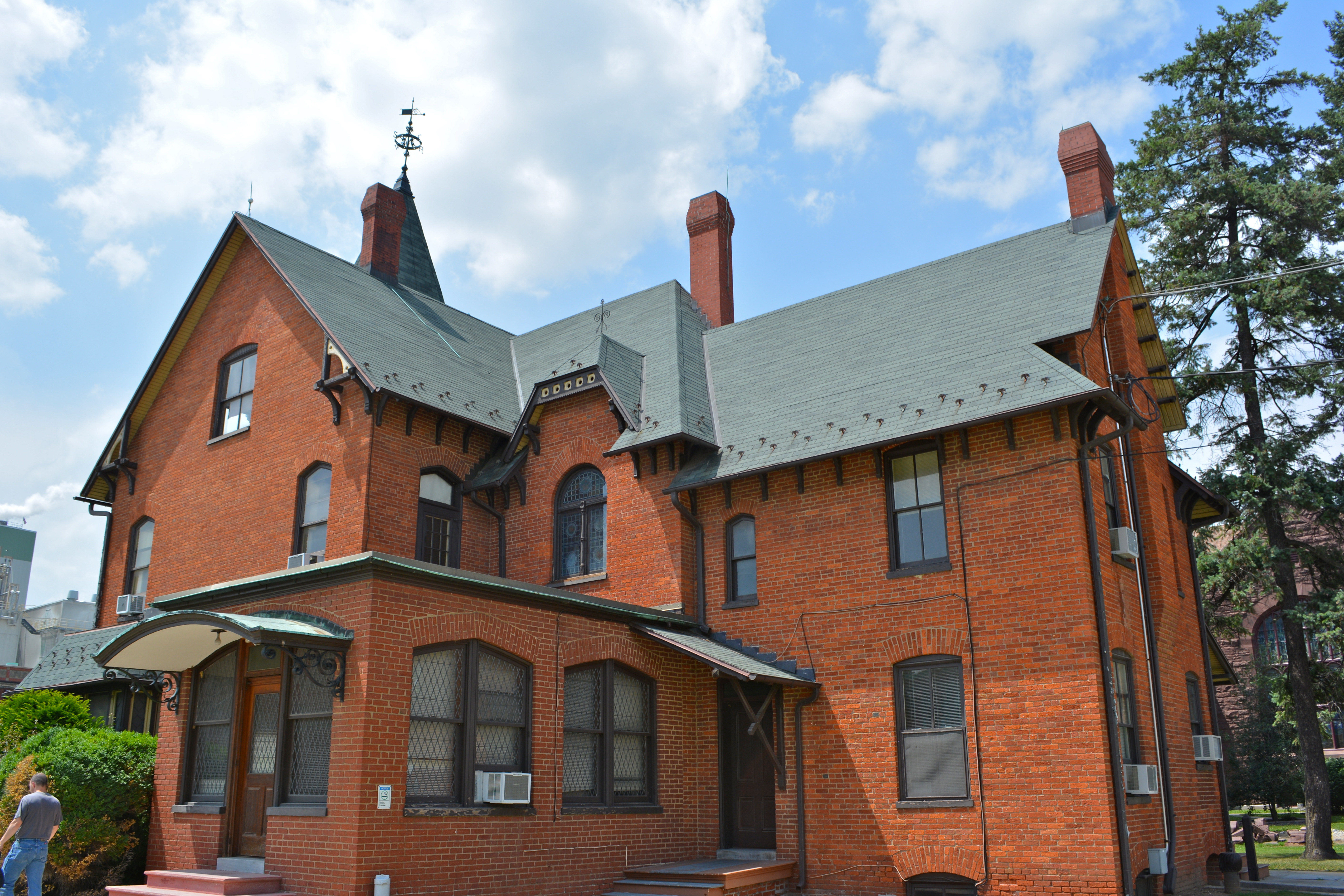 Spring Grove Borough Historic District listed on the NRHP on May 25, 1984 (#84003608) The historic district is roughly bounded by College Avenue and Jackson, Water, East, and Church Streets in Spring Grove, York County, Pennsylvania